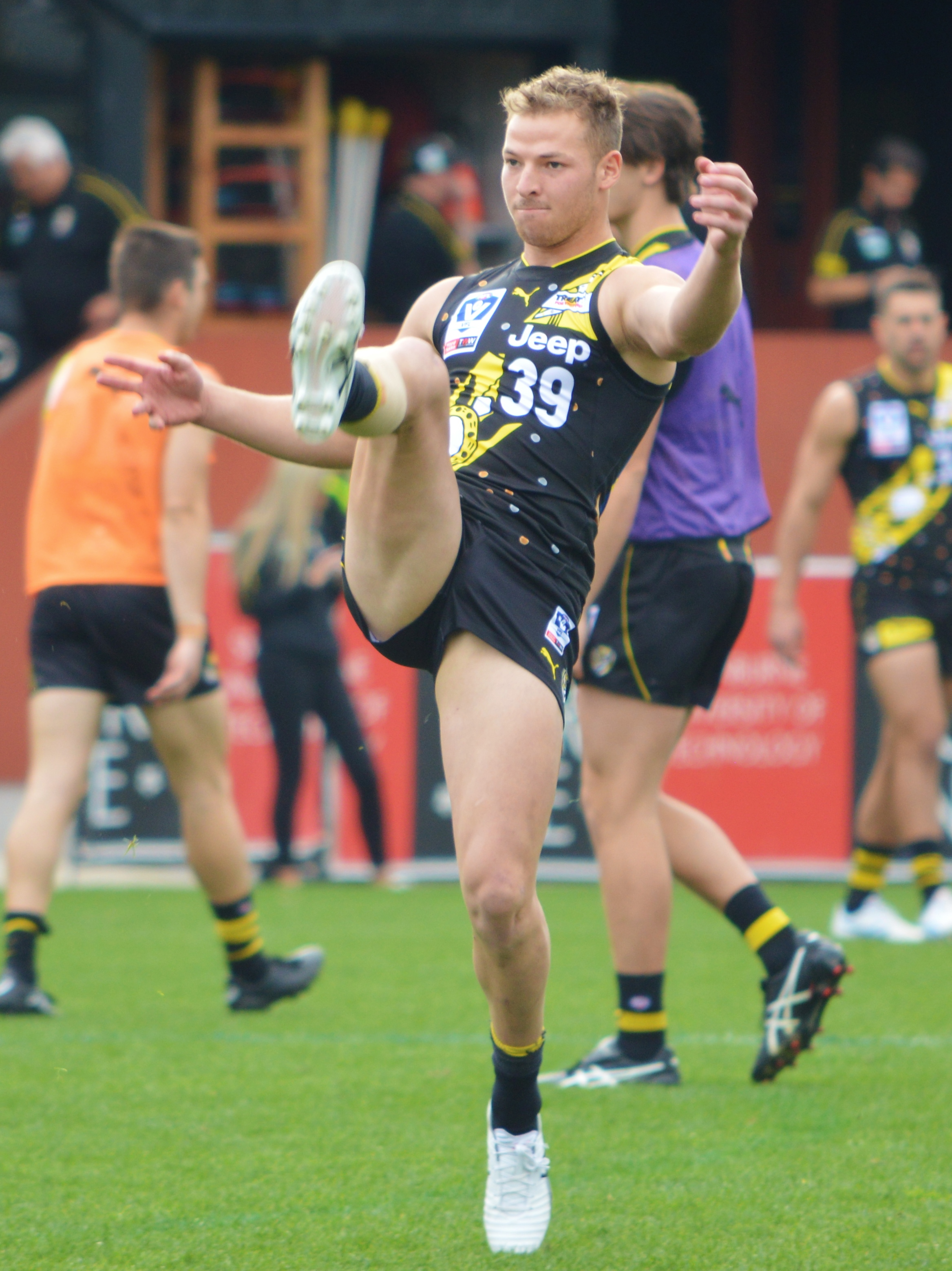 Jake Aarts with Richmond in the round 8 VFL match against Essendon at Punt Road Oval on 25 May 2019.